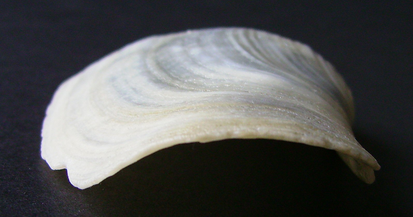 Panopea zelandica (view of gape) from Pakiri Beach, New Zealand. This work has been released into the public domain by its author, Graham Bould. This applies worldwide. In some countries this may not be legally possible; if so: Graham Bould grants anyone the right to use this work for any purpose, without any conditions, unless such conditions are required by law.